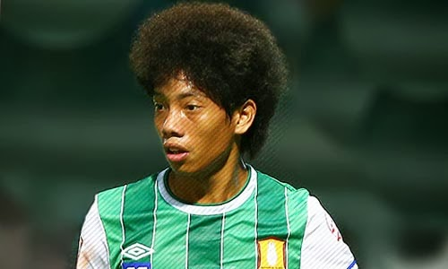 Thanasit Siriphala